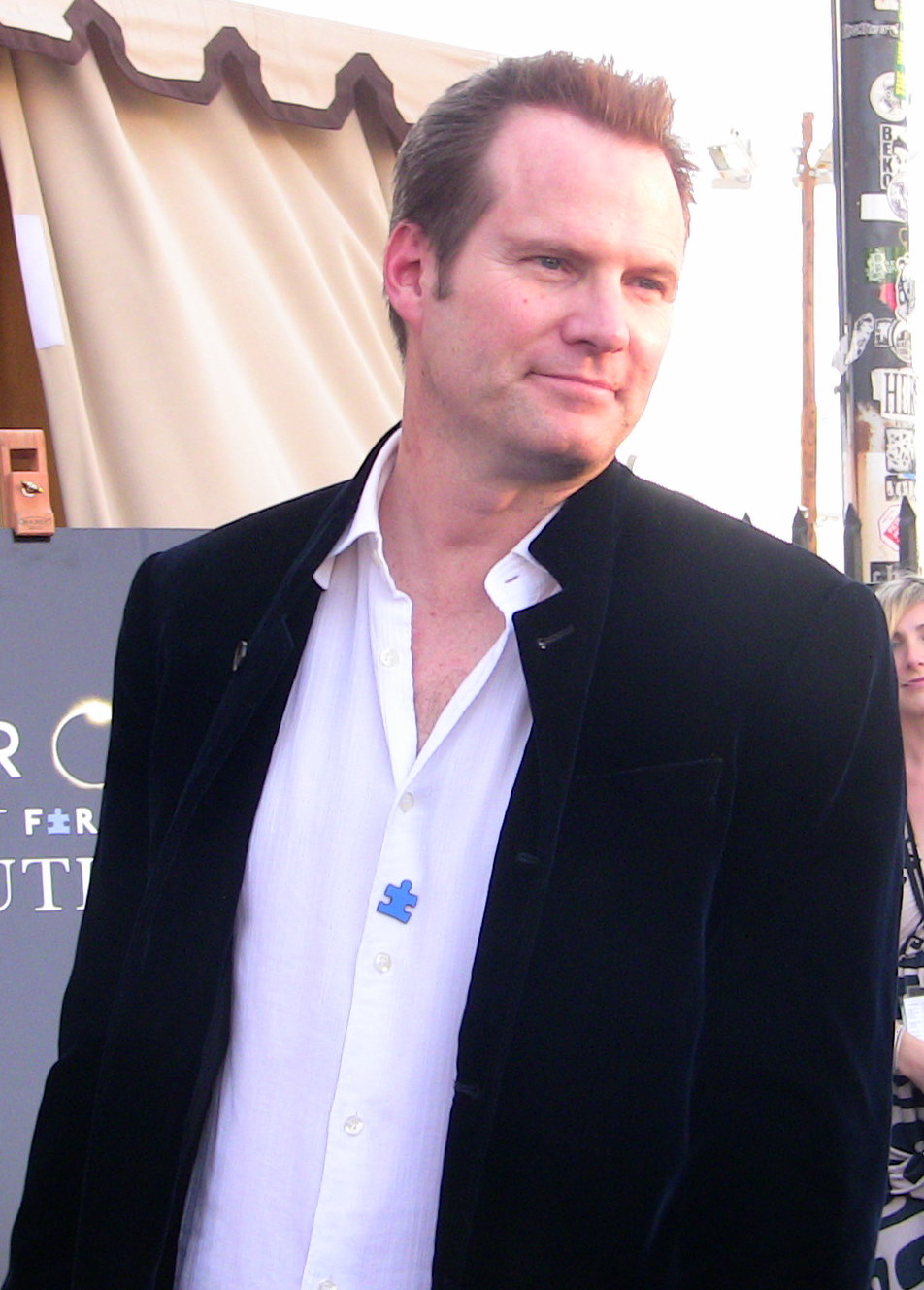 Actor Jack Coleman at Heroes for Autism event, Hollywood, California.